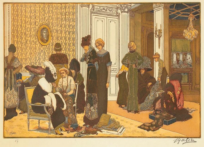 Pierre Gatier : La Salon de M. Doucet [Jacques Doucet], etching with mixed technics.